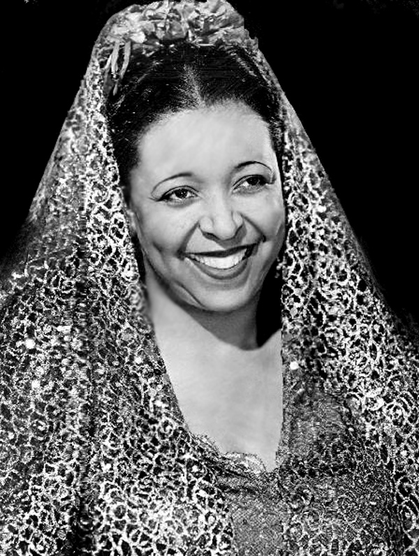 Publicity photo of Ethel Waters.